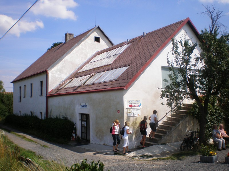 Žírovice (Františkovy Lázně), Cheb District, Czech Republic, butterfly farm